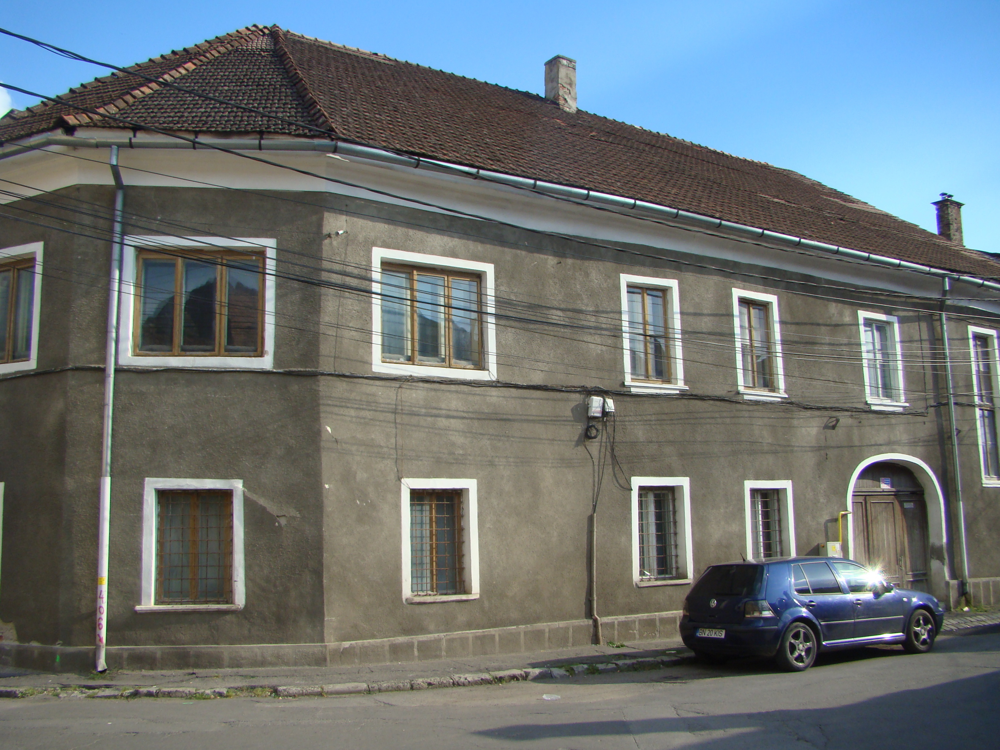 House, historic monument, in Bistrița, Piața Mică 6